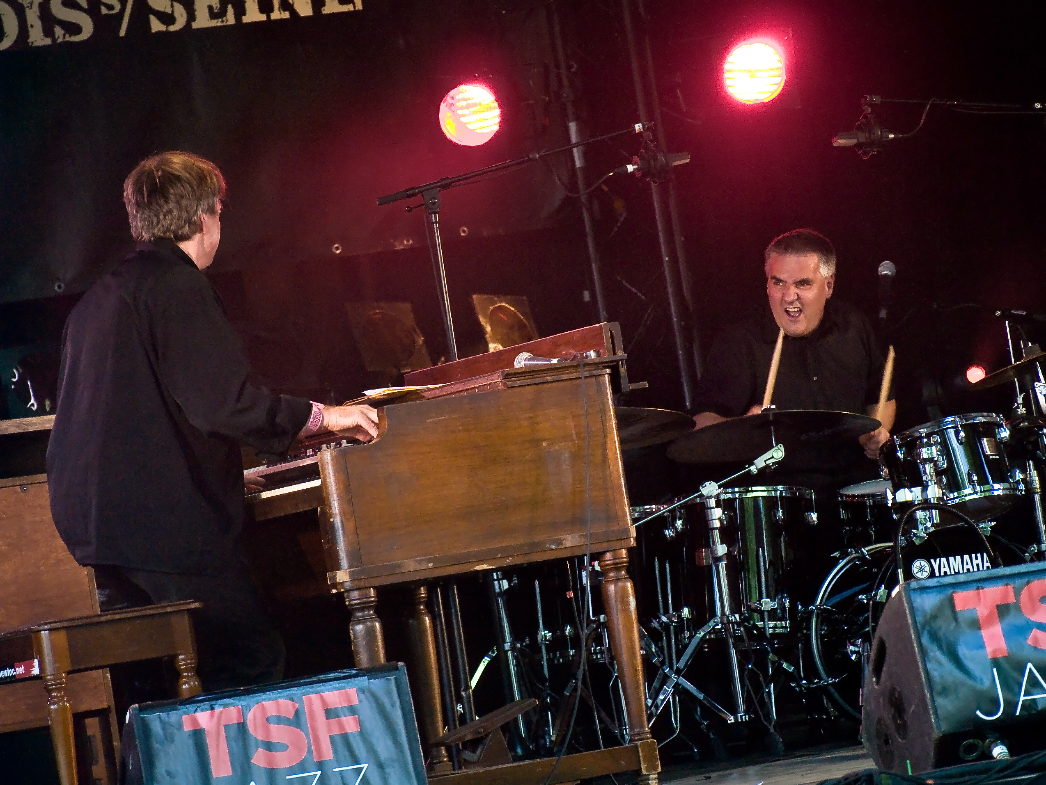 Benoît Sourisse (organ) and André Charlier (drums) at Django Reinhardt Festival in Samois-sur-Seine, June 2009, France.